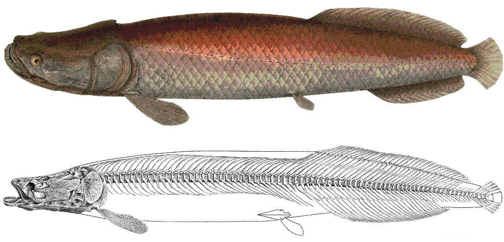 up: illustration of Sudis pirarucu from Spix and Agassiz (1829), perhaps, of the same specimen that is the holotype for A. agassizii. down: osteological illustration (supervised by Agassiz) of holotype for A. agassizii